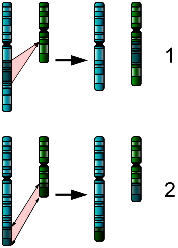 By Richard Wheeler (Zephyris) 2007. The two major two chromosome mutations; insertion and translocation. These occur relatively often in humans between chromosomes 4 and 20.